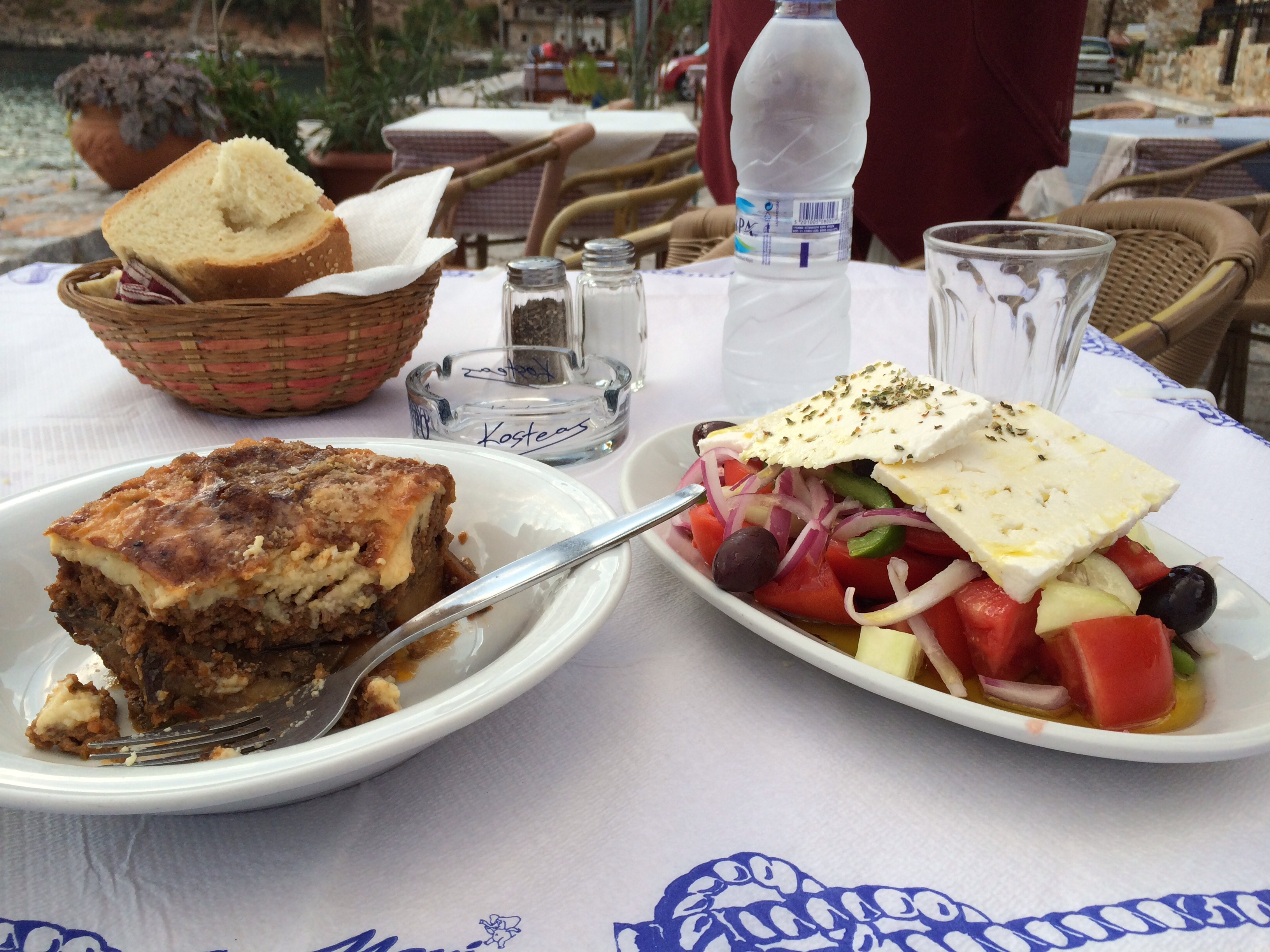 Moussaka and Greek salad served at a taverna in Laconia, Peloponnesus in Greece